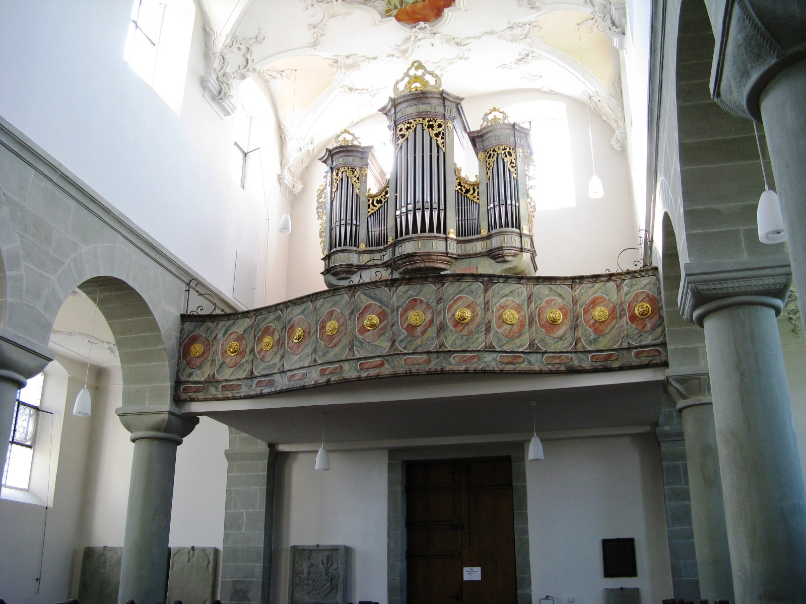 Church St. Peter and Paul, Reichenau, Germany - orgue